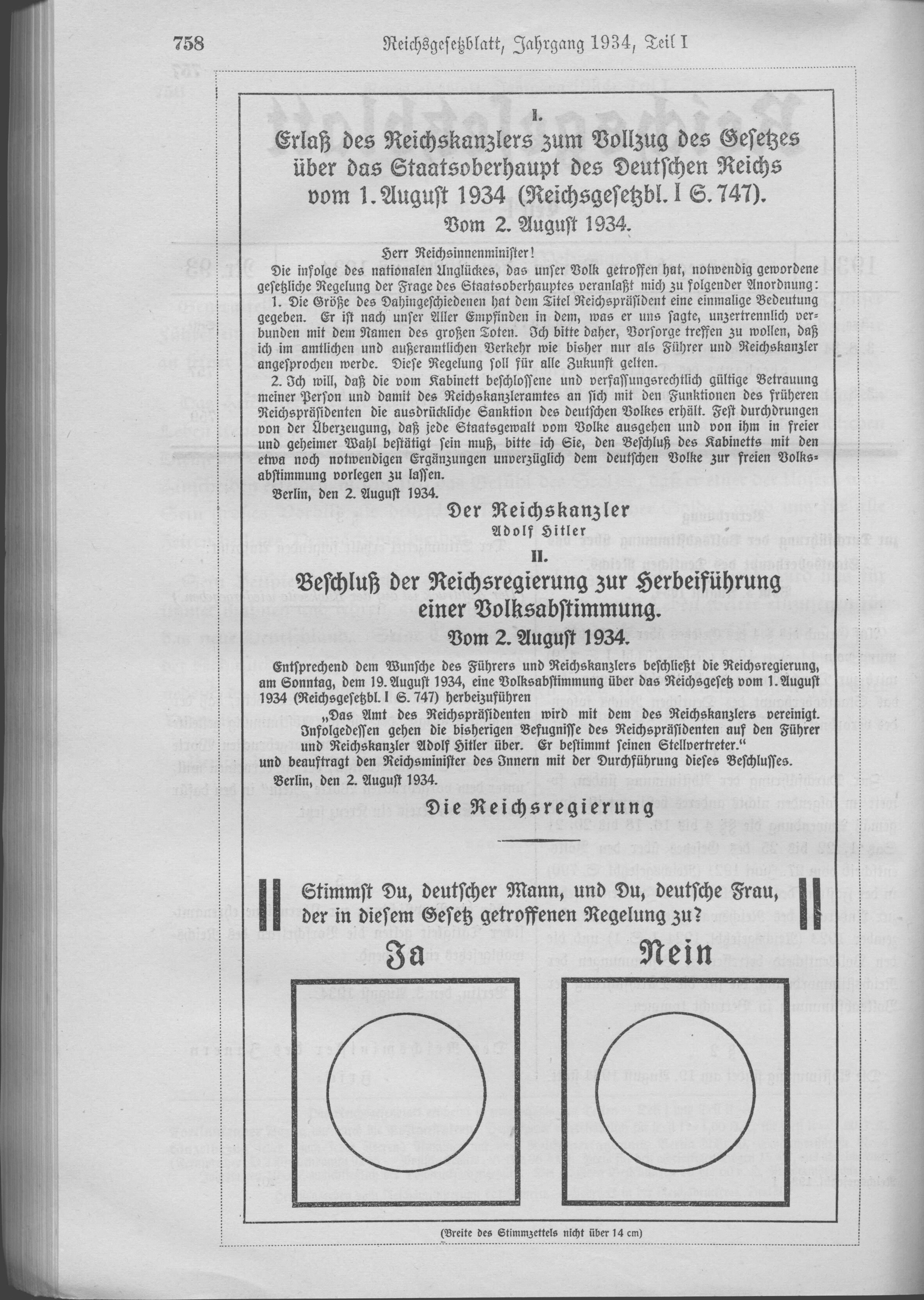 Scan from the Imperial Law Gazette of Germany, 1934, part 1